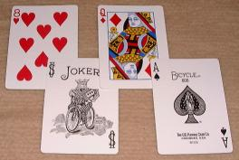 Photo of "Bicycle" brand playing cards (made by U.S. Playing Card Co.).